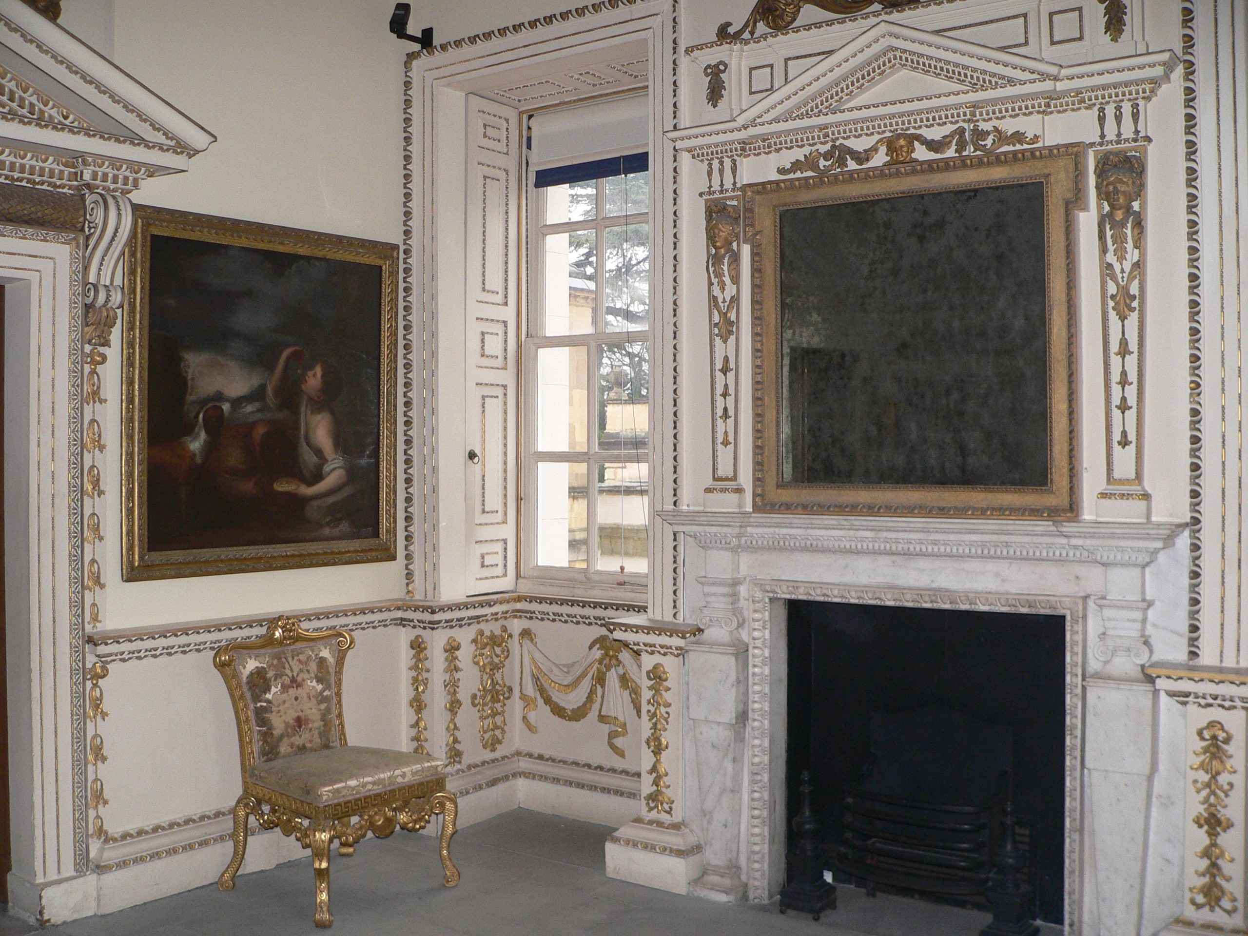 Bedchamber closet showing Prince of Wales swags beneath the window